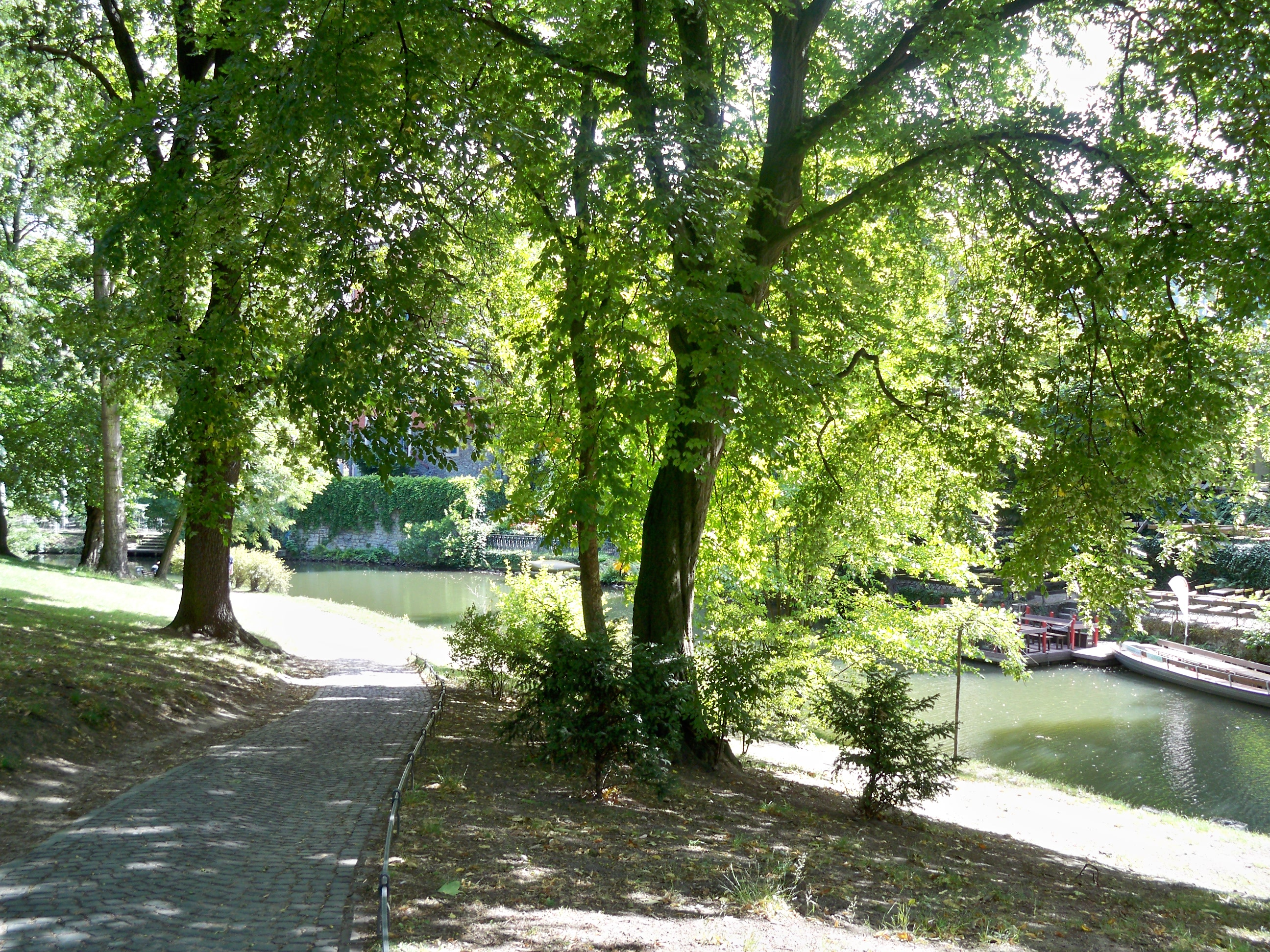 Brunswick, Germany, Museumpark with Oker river